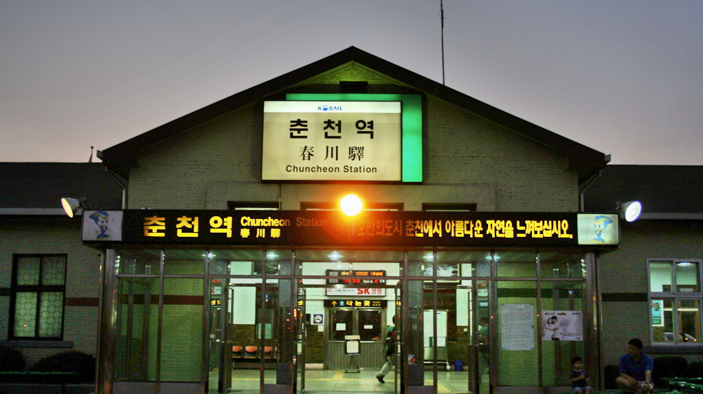 Chuncheon train station in Chuncheon, South Korea.